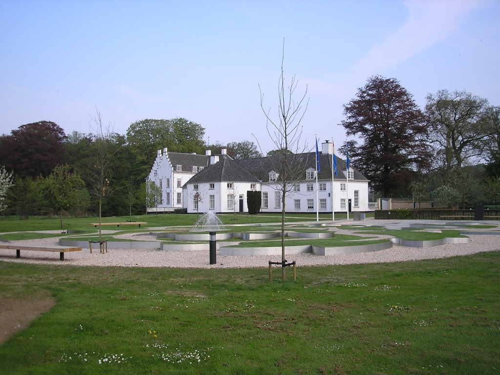 Dutch national monument in honour of policeman and -women who died on duty